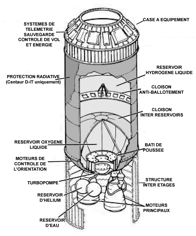 Centaur rocket stage drawing